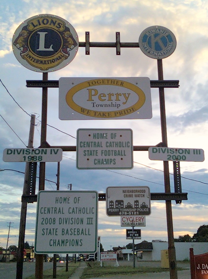 A sign welcomes visitors and residents alike to Perry Township in Canton, OH.